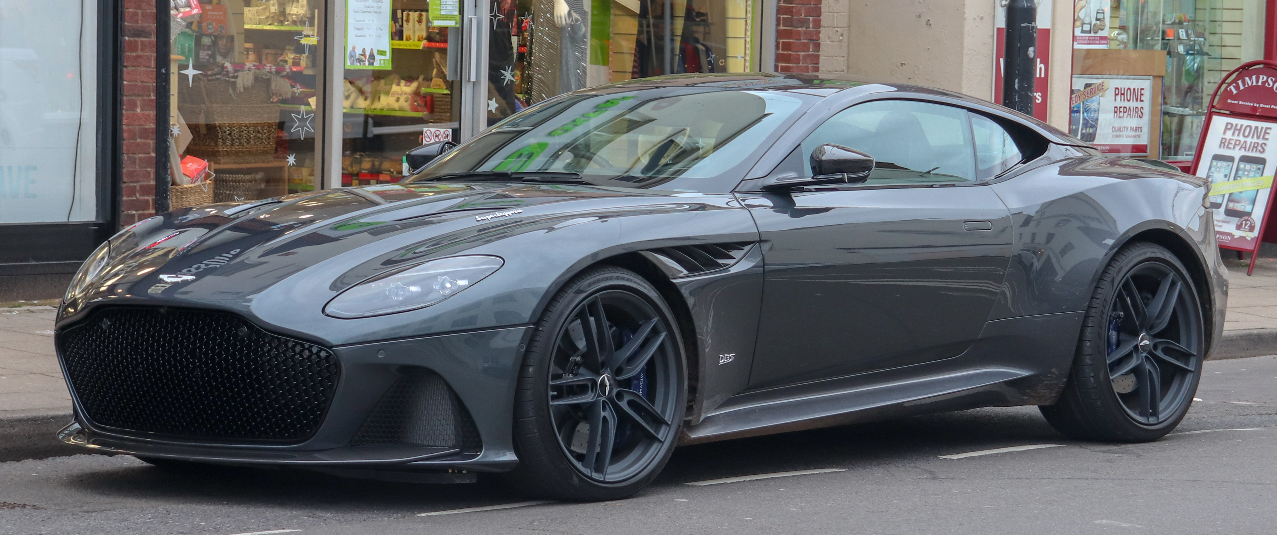 2018 Aston Martin DBS Superleggera V12 Automatic 5.2 Front Taken in Leamington Spa